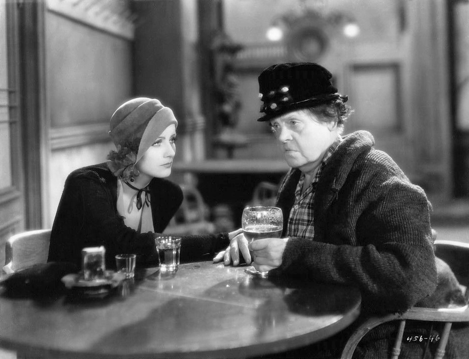 Promotional photograph for the film Anna Christie starring Greta Garbo and Marie Dressler